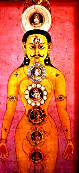 The seven chakra in the body. Nepalese painting, 18th century.